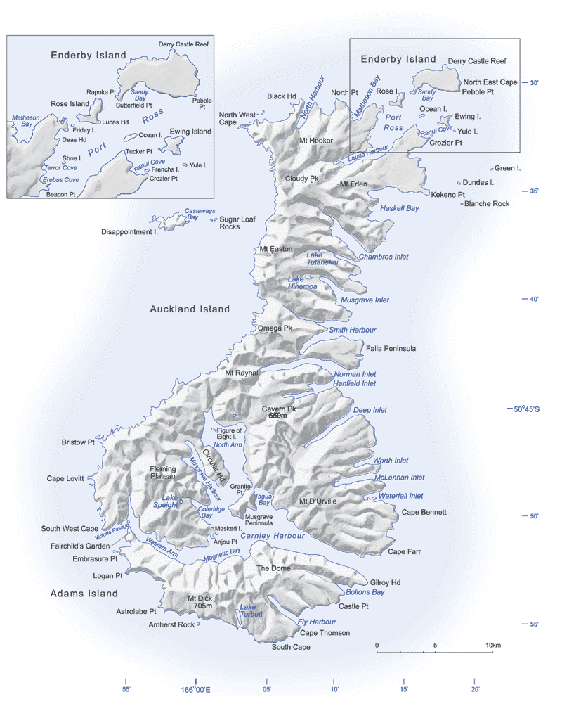 Auckland Islands with notable sites